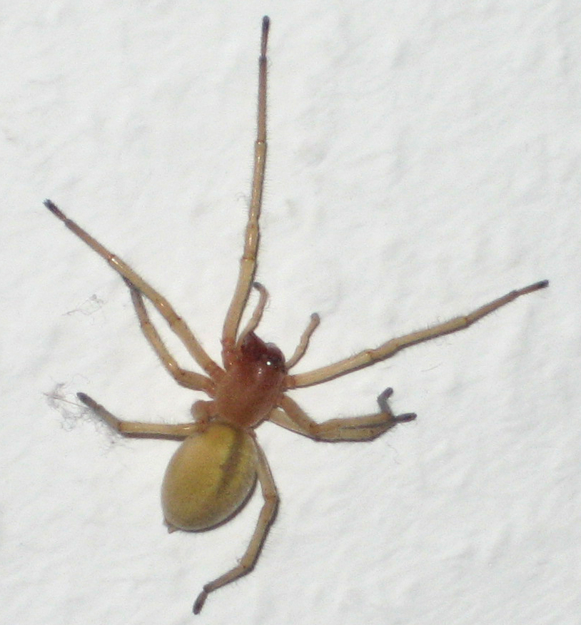 Cheiracanthium punctorium